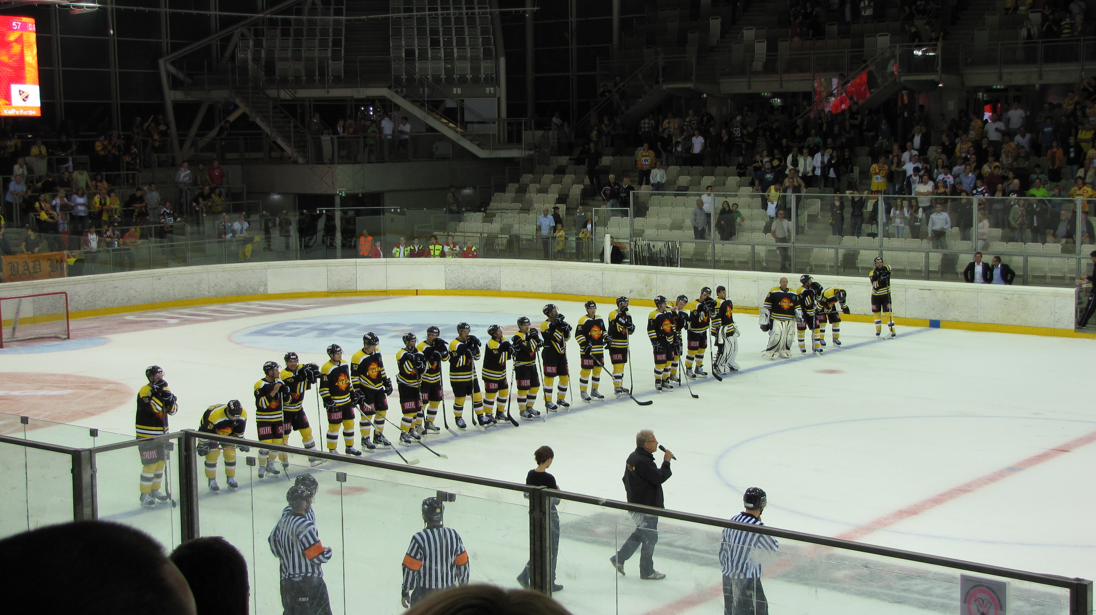 Austrian Vienna Capitals ice hockey team during European Trophy 2011 tournament in Albert Schultz Eishalle, Vienna, Austria.